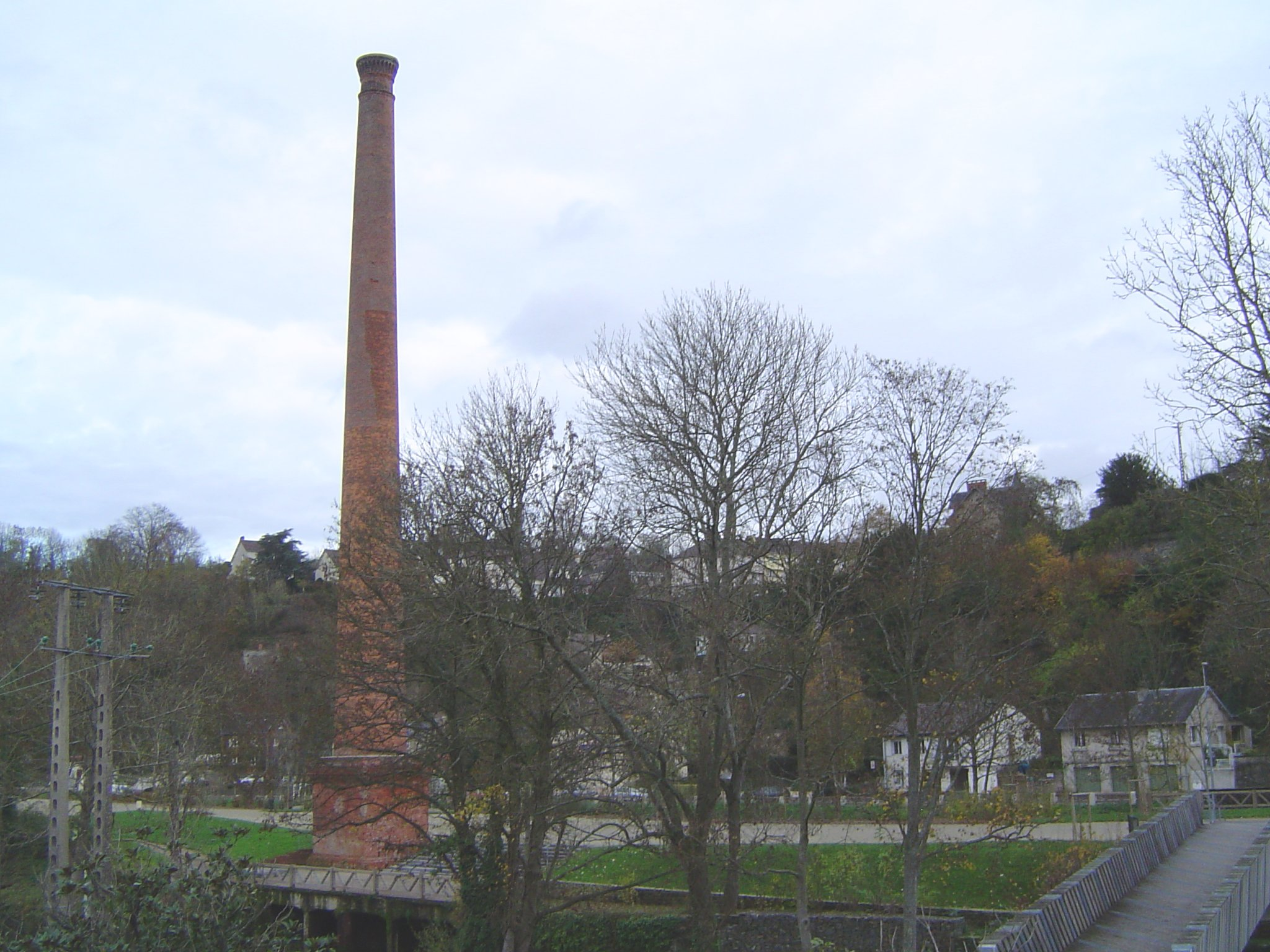 the old stationnary's cheminee